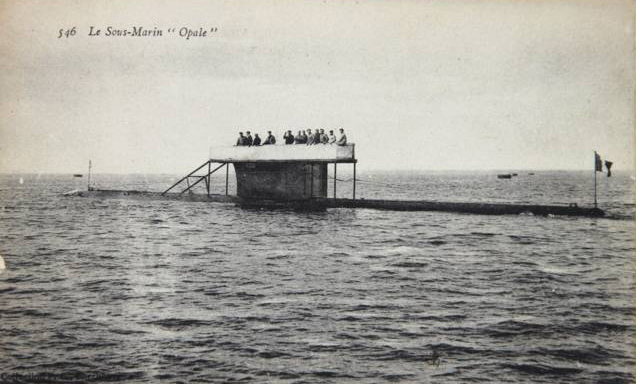 Emeraude-class submarine Opale